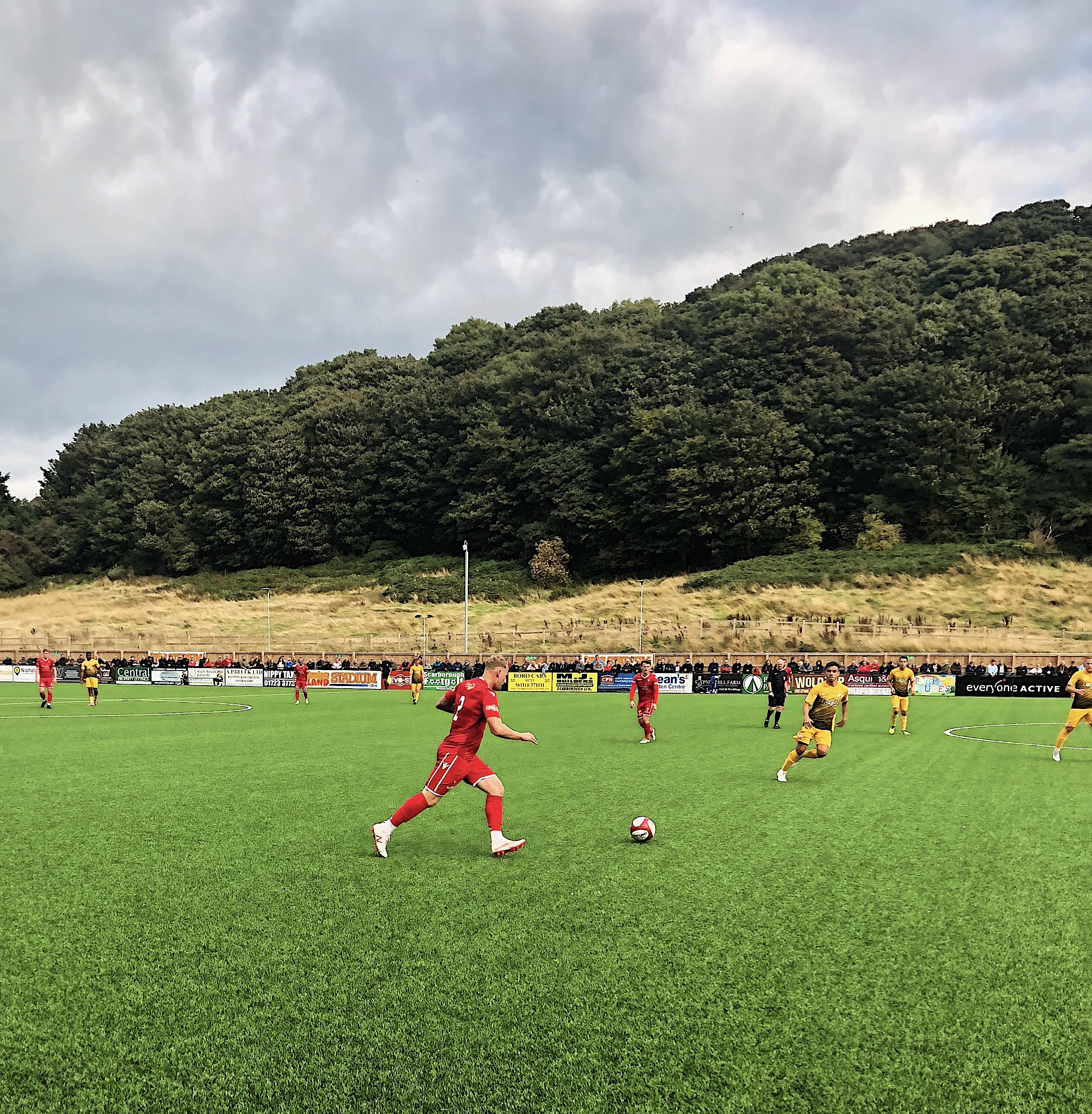 Lacey playing for Scarborough Athletic F.C. 2018